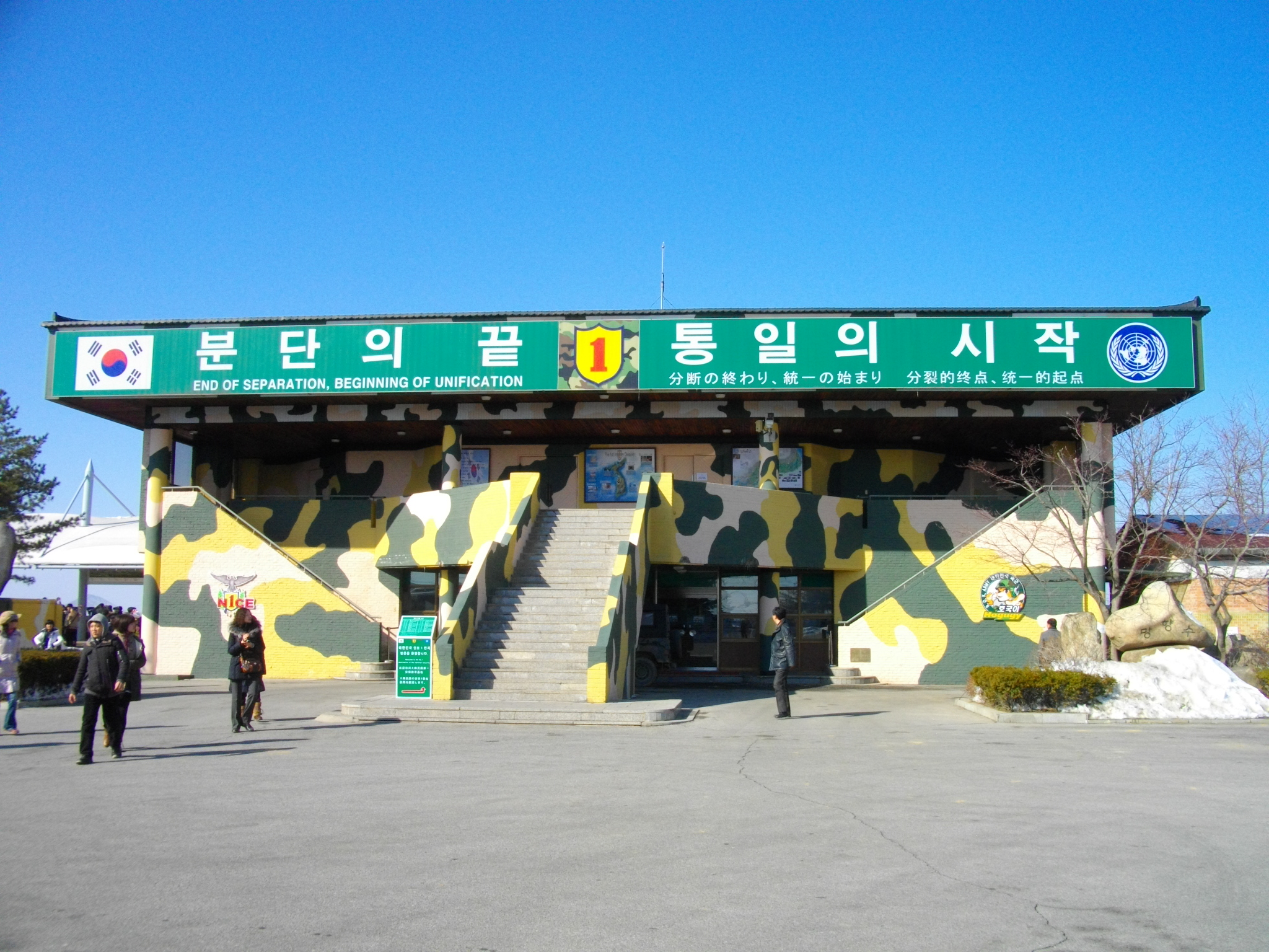 Dora Observatory